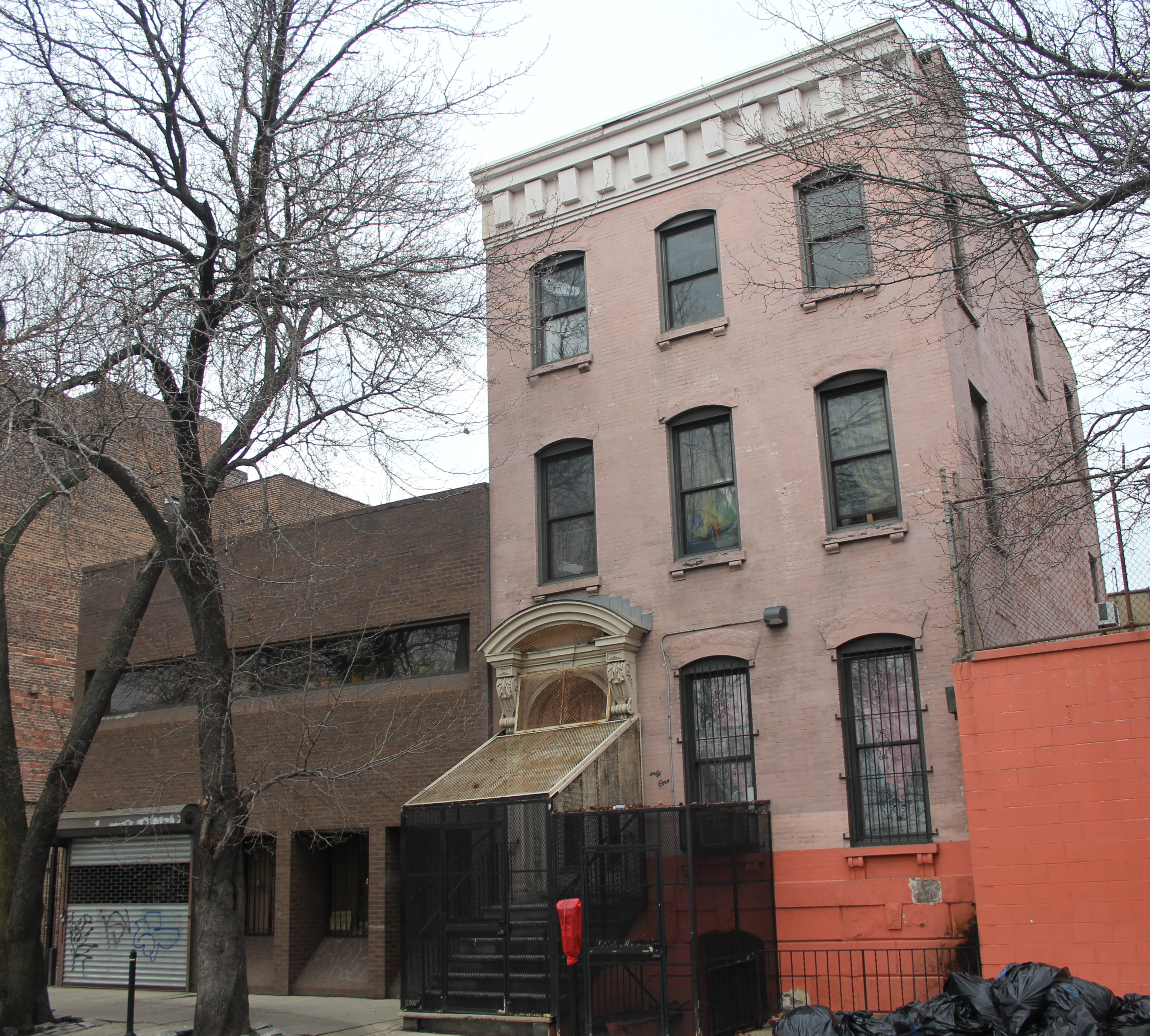 Newark Female Charitable Society smaller buildings at 41 and 43 Hill Street. 41 Hill is a townhouse purchased by the Society in 1912 and sold by it in 1923. 43 Hill is a medical and dental clinic built by the Society in 1977. Each building is listed on National Register of Historic Places along with the larger and more historical 305 Halsey Street, adjacent. NRIS #79001485.